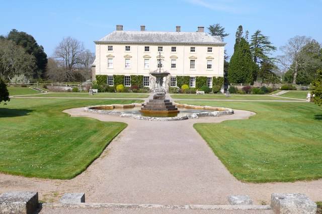 Pencarrow House, Bodmin, Cornwall PL30 View of the rear of Pencarrow House with landscaped gardens and fountain.